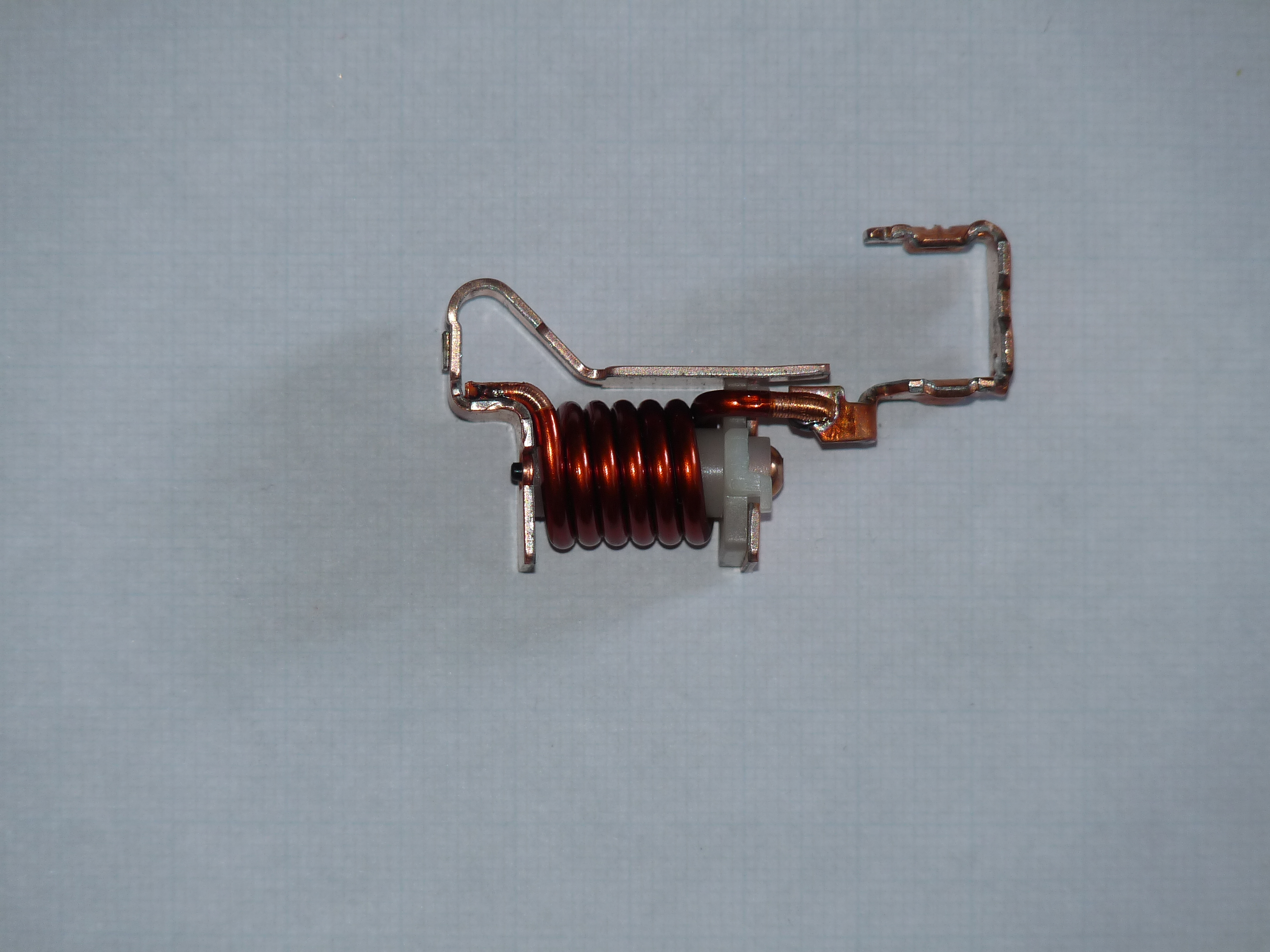 Magnetic disconnector from circuit breaker